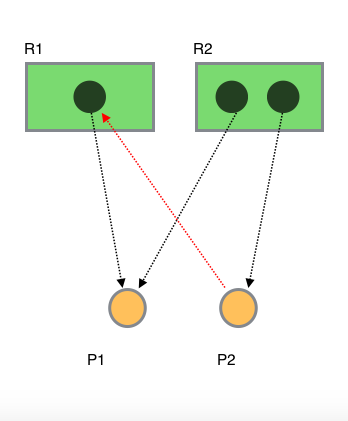 Wait-for graph